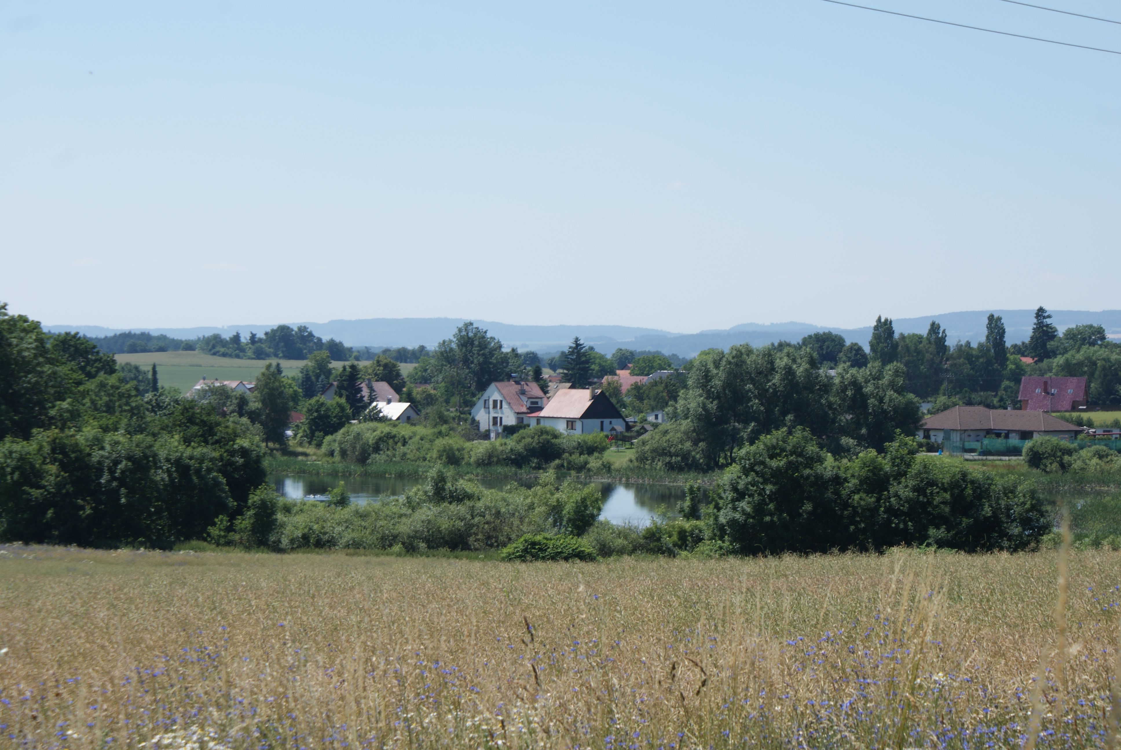 Lazsko, a village in Příbram district, Czech Republic, general view. Česky: Lazsko, okres Příbram, celkový pohled